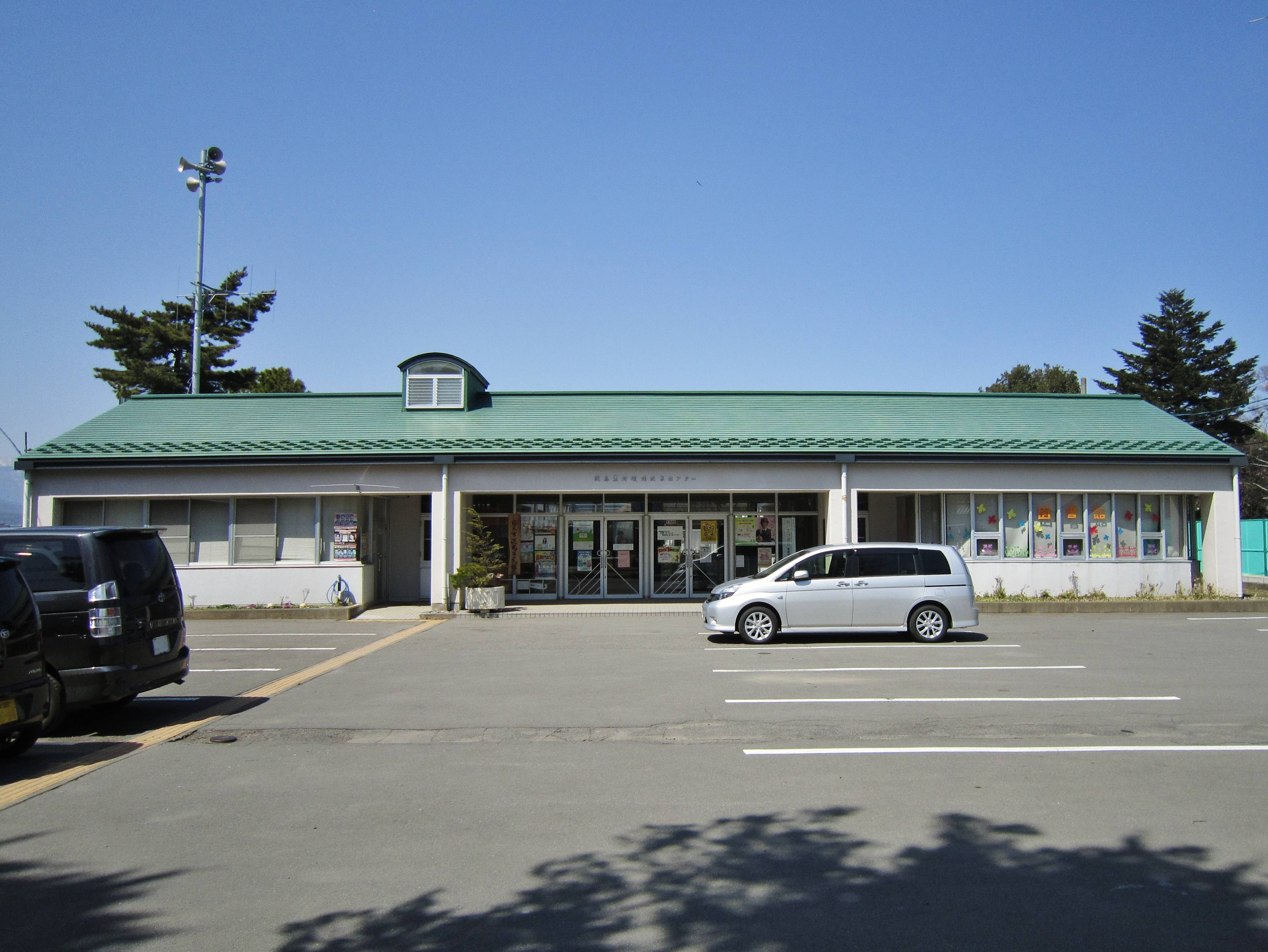 Shiojiri city Seba branch office (Seba-nōson-kankyō-kaizen center / Seba kominkan / Seba library).